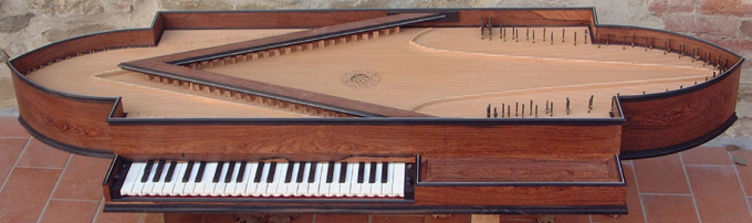 Image by Tony Chinnery; permission obtained from him by email.